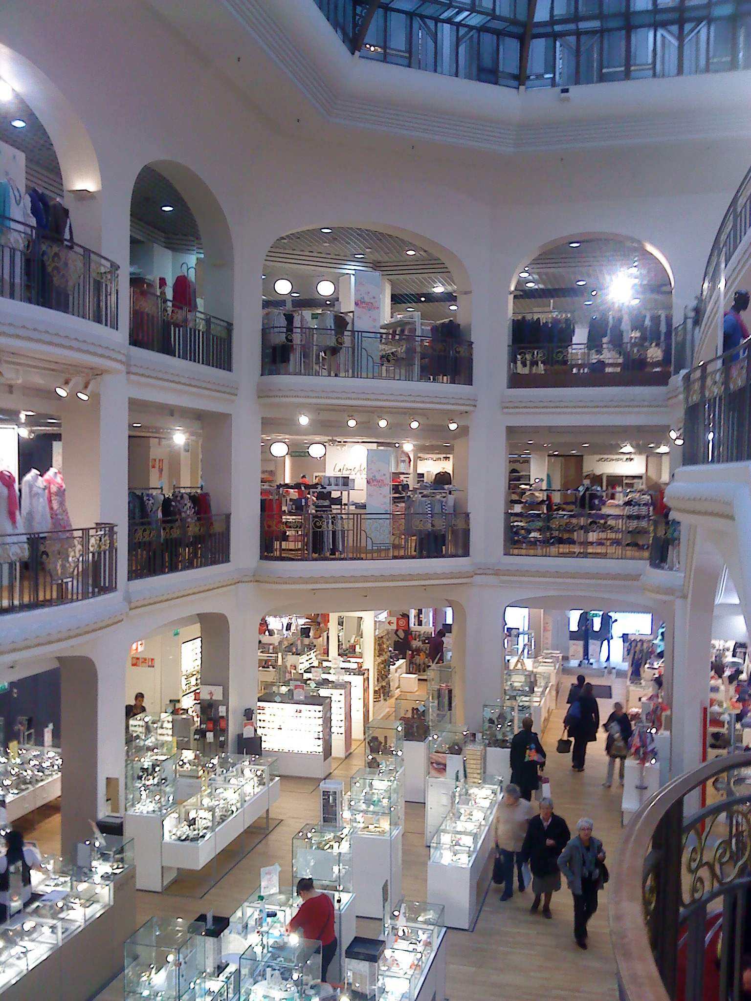 Nouvelles galeries, Angers